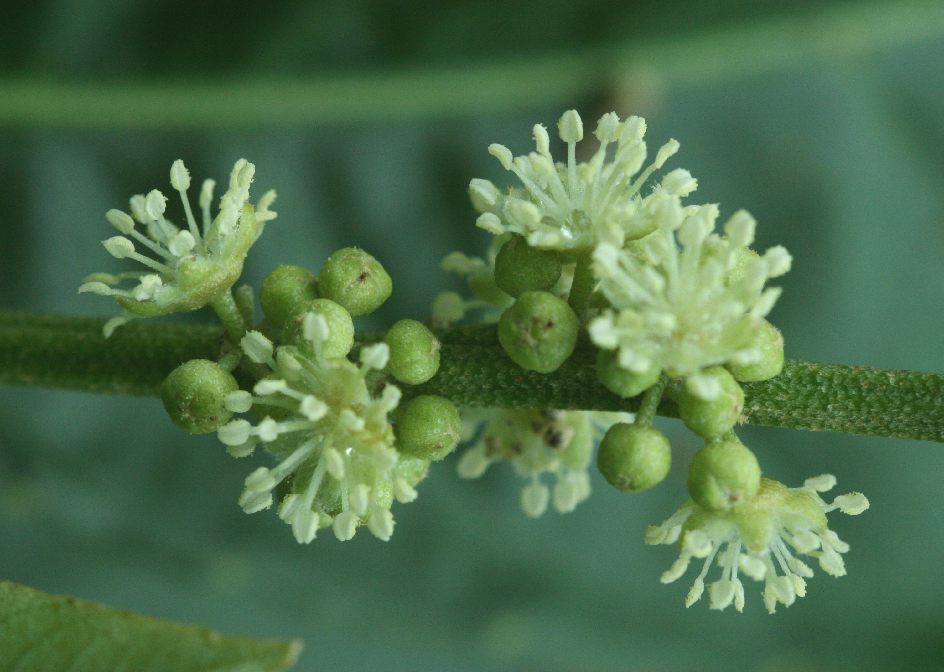 Inflorescence of Croton pullei, upper Rio Tabaro, Venezuela